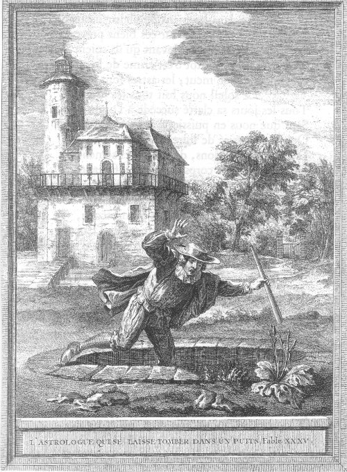 Illustration for The Astrologer who Fell into a Well